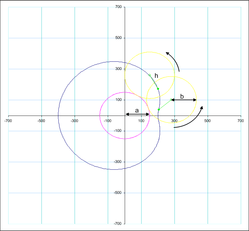 In mathematics, limaçons (pronounced with a soft c), also known as limaçons of Pascal, are heart-shaped mathematical curves.